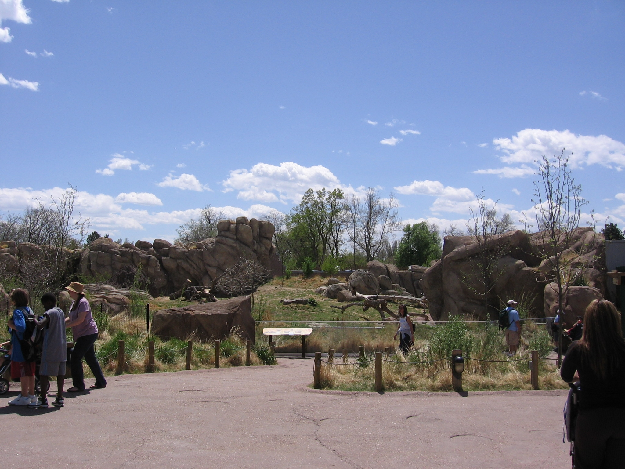 Predator Ridge exhibit at the Denver Zoo